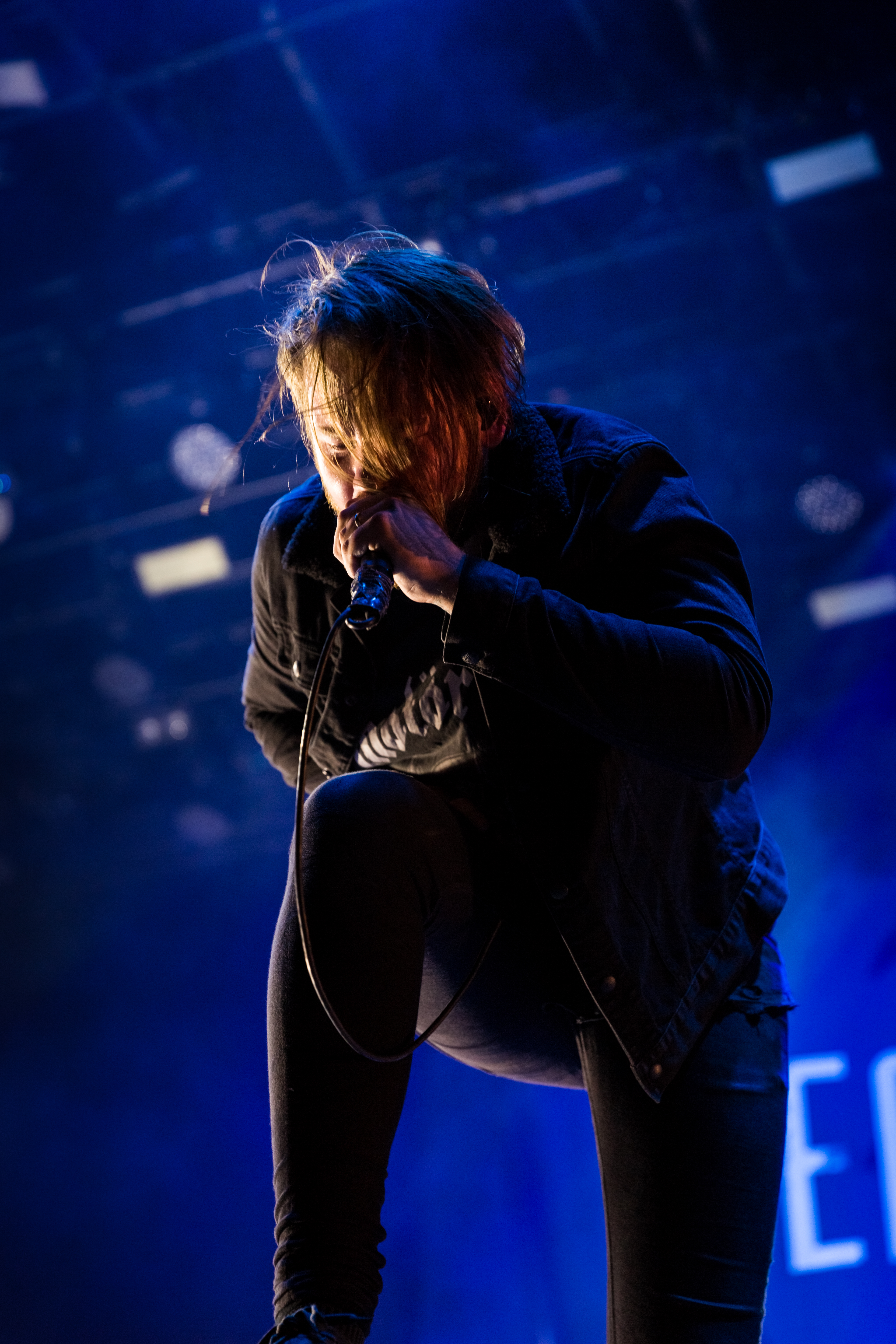 Beartooth - Rock am Ring 2017